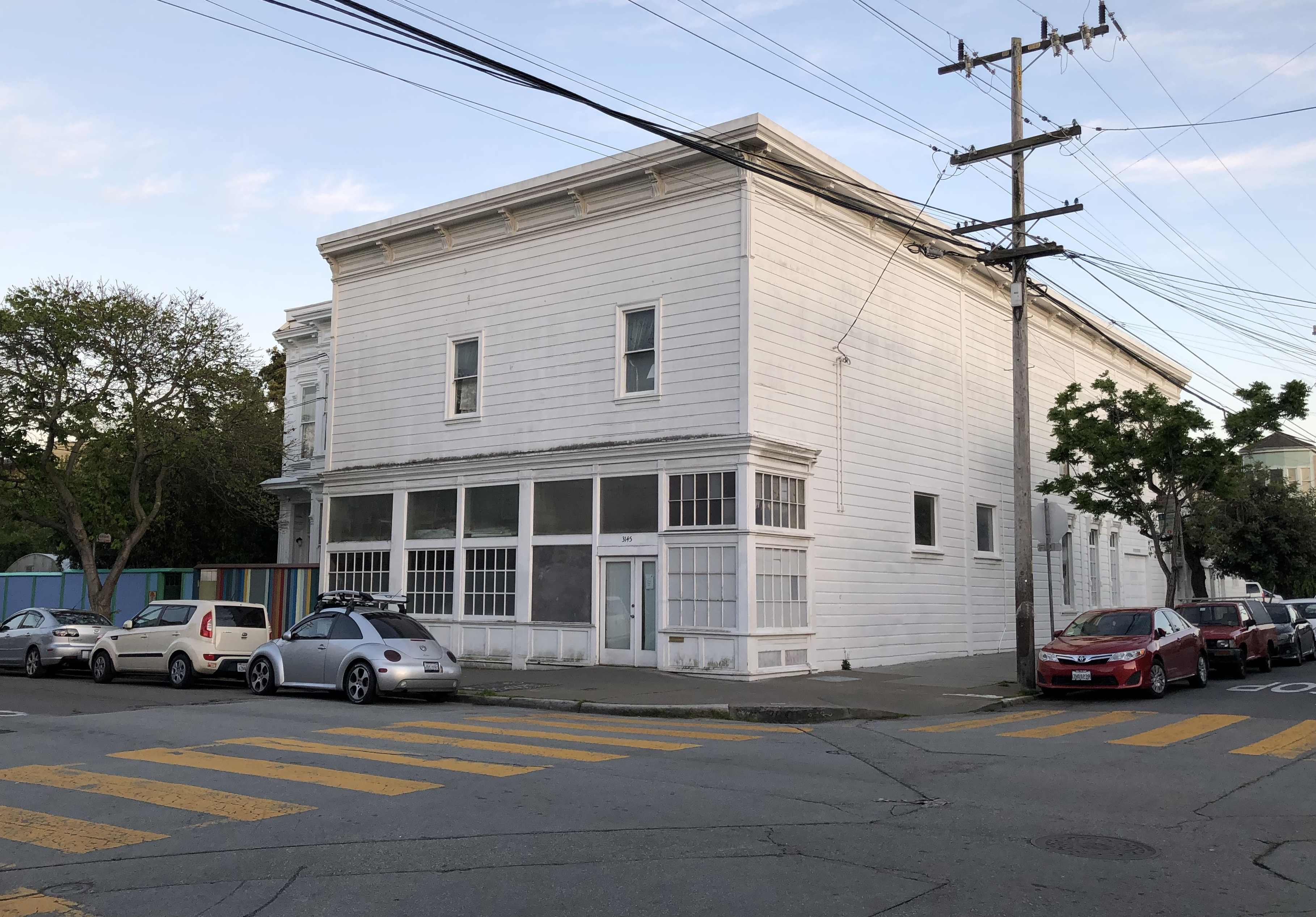 Houses belonging to the group formerly known as the Kaliflower Commune. 23rd St and Shotwell St in San Francisco.